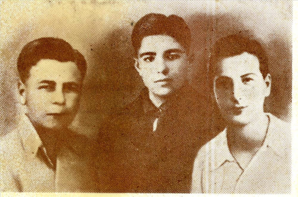 Kostas Foltopoulos, Dimitris Avgeris, Thanos Kikomenidis – three members United Panhellenic Organization of Youth (EPON) who took an unequal battle and killed in battle against 200 nazis, April 28, 1944 Ymittos, Athens